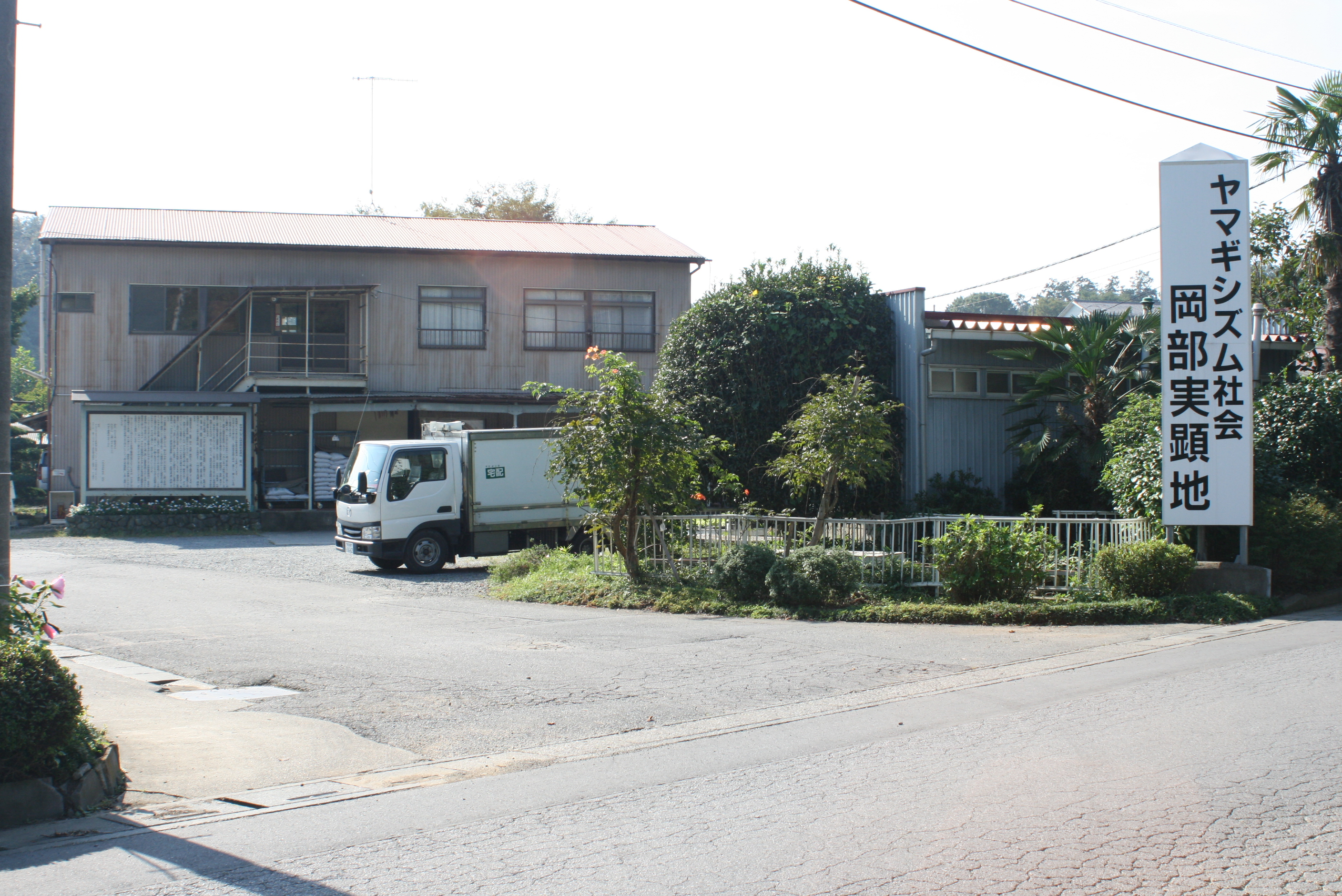 Okabe farm of Yamagishi movement in Saitama prefecture, Japan